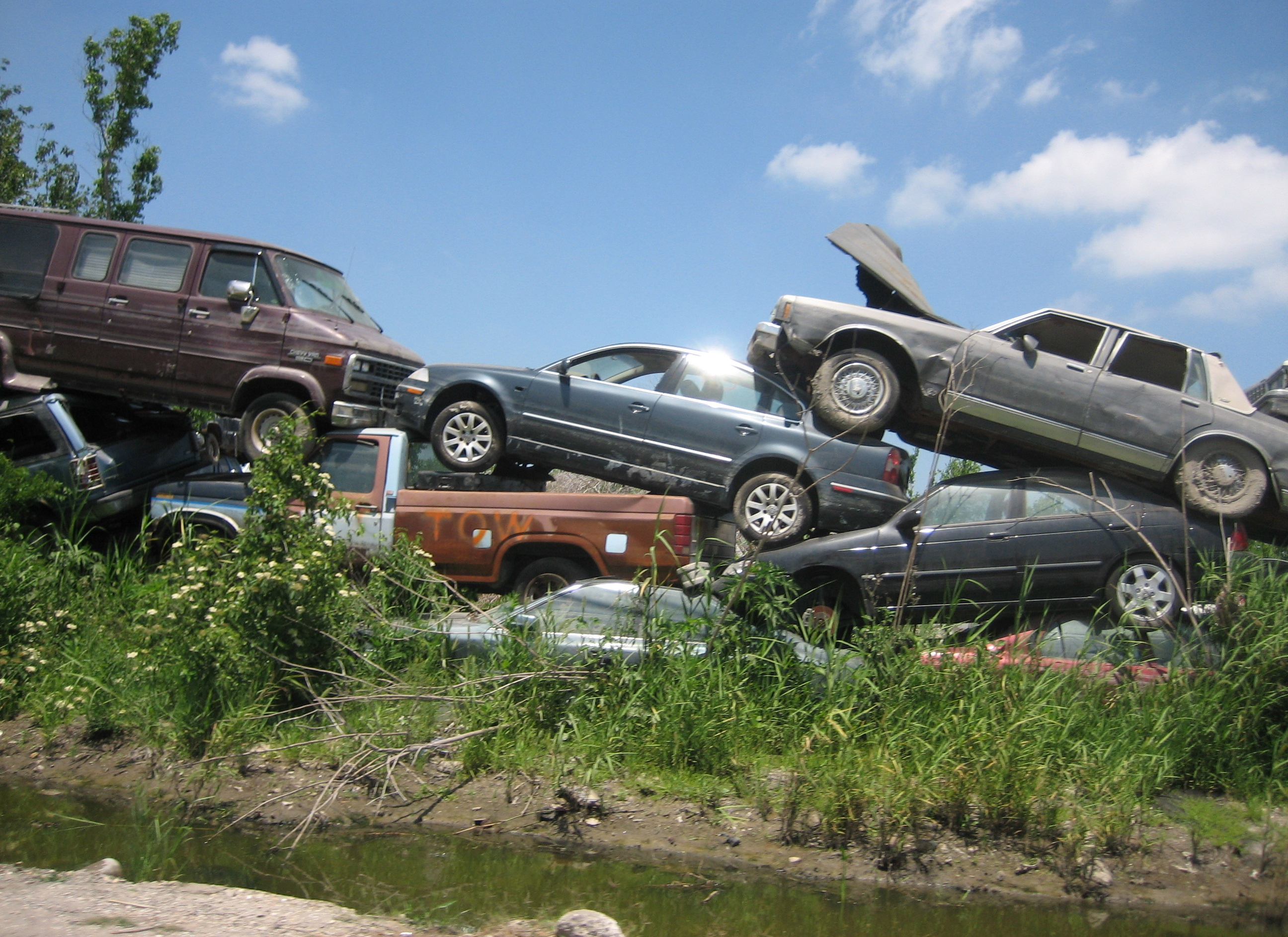 New Orleans after Hurricane Katrina : Flood damaged autos towed from streets piled in lots in Eastern New Orleans